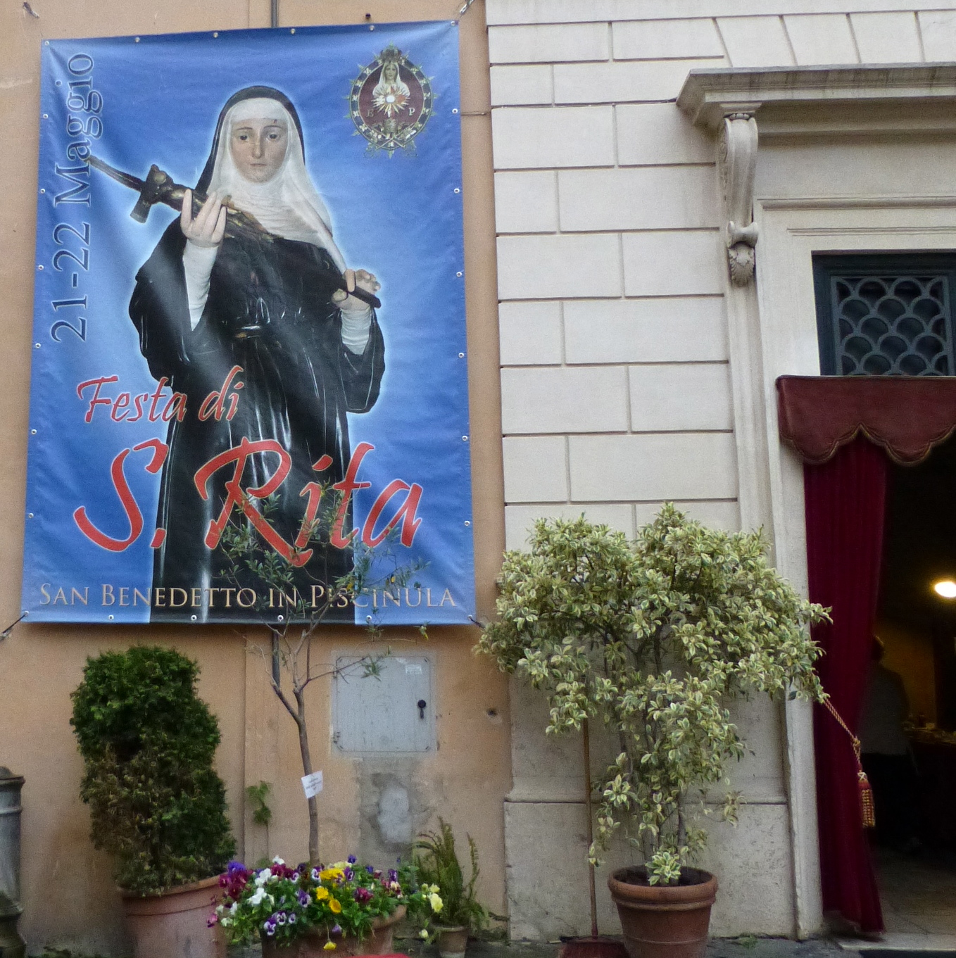 Feast of Rita of Cascia, San Benedetto in Piscinula, Trastevere, Rom (May 21, 2013)